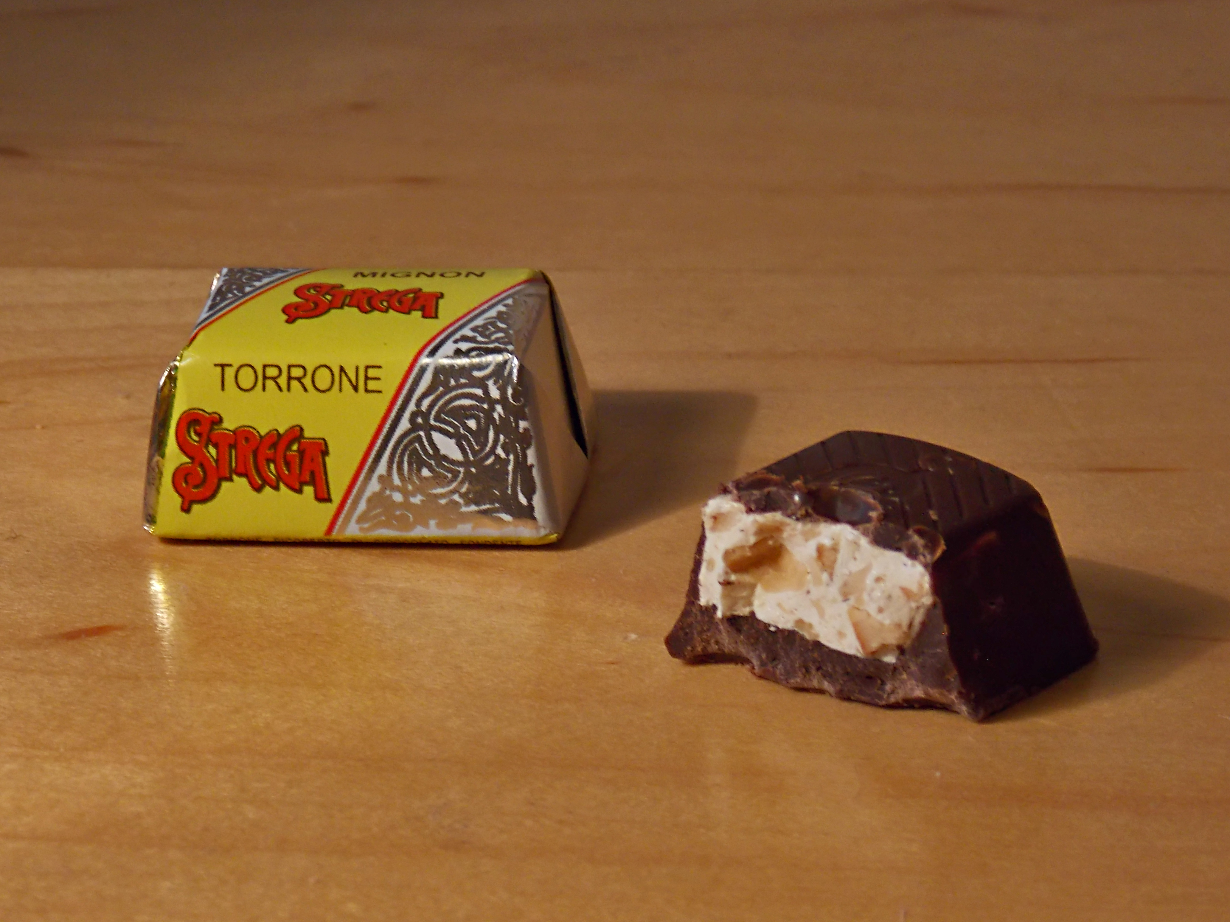 A wrapped and a halved mignon piece of Torrone Strega, a nougat from Benevento, Italy